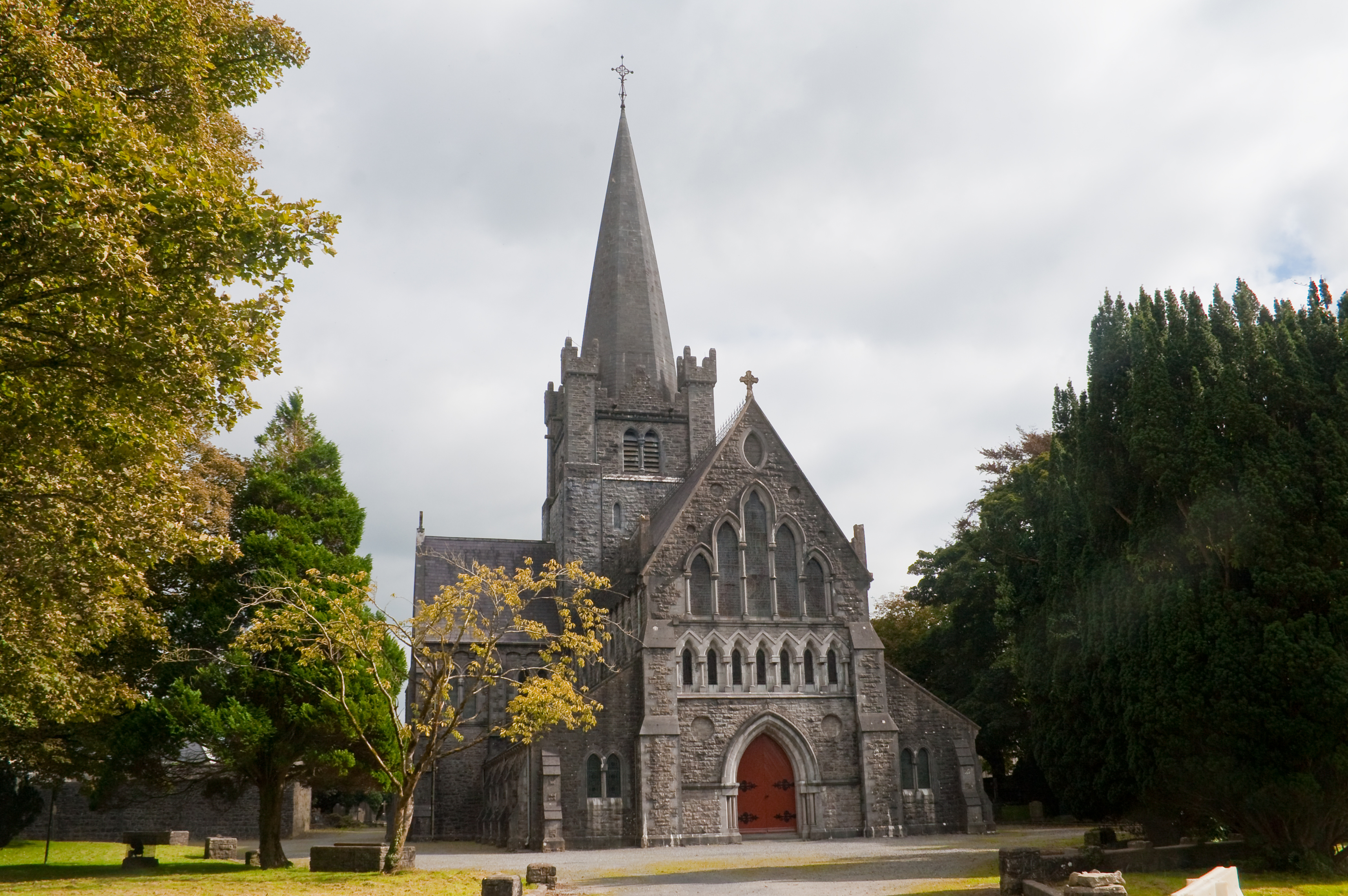 Tuam, County Galway, Ireland West front of St. Mary's Cathedral in Tuam, designed by Sir Thomas Deane.